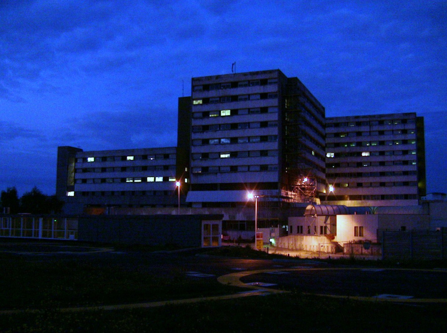 The hospital Jean Minjoz by night, located in Besançon (Doubs, France)